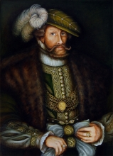 George I of Pomerania